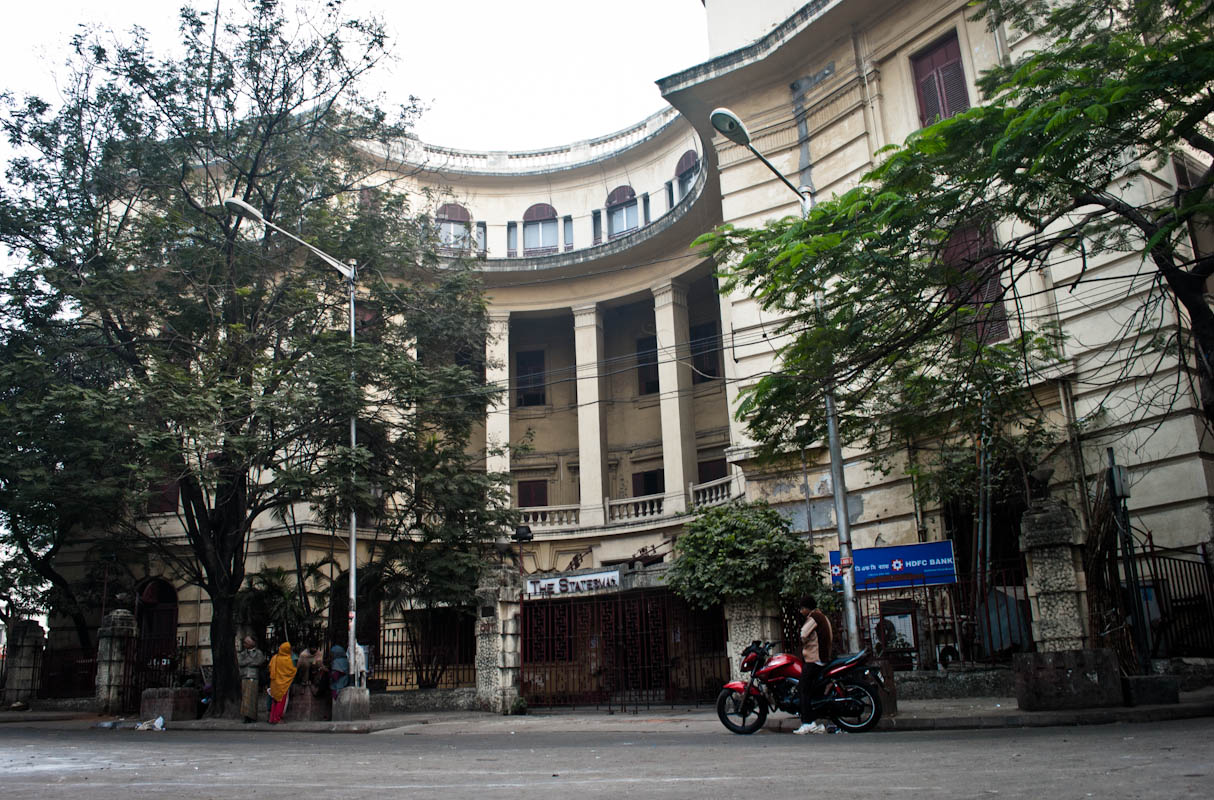 The Statesman House in Esplanade